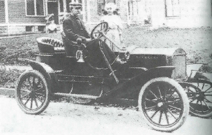 1908 Lambert automobile model 18 runabout